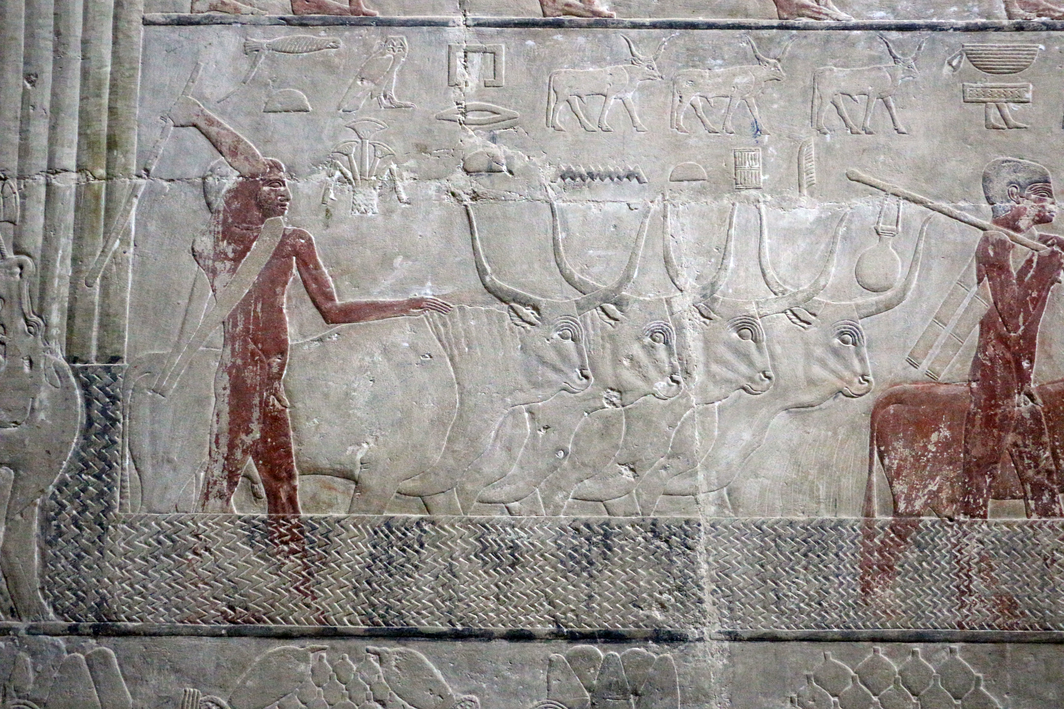 Mastaba of Ti